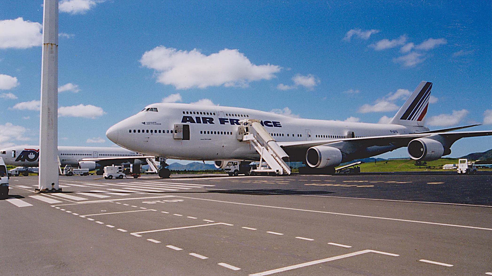 Air France Boeing 747-400 (F-GITD) at La Tontouta Airport, Noumea